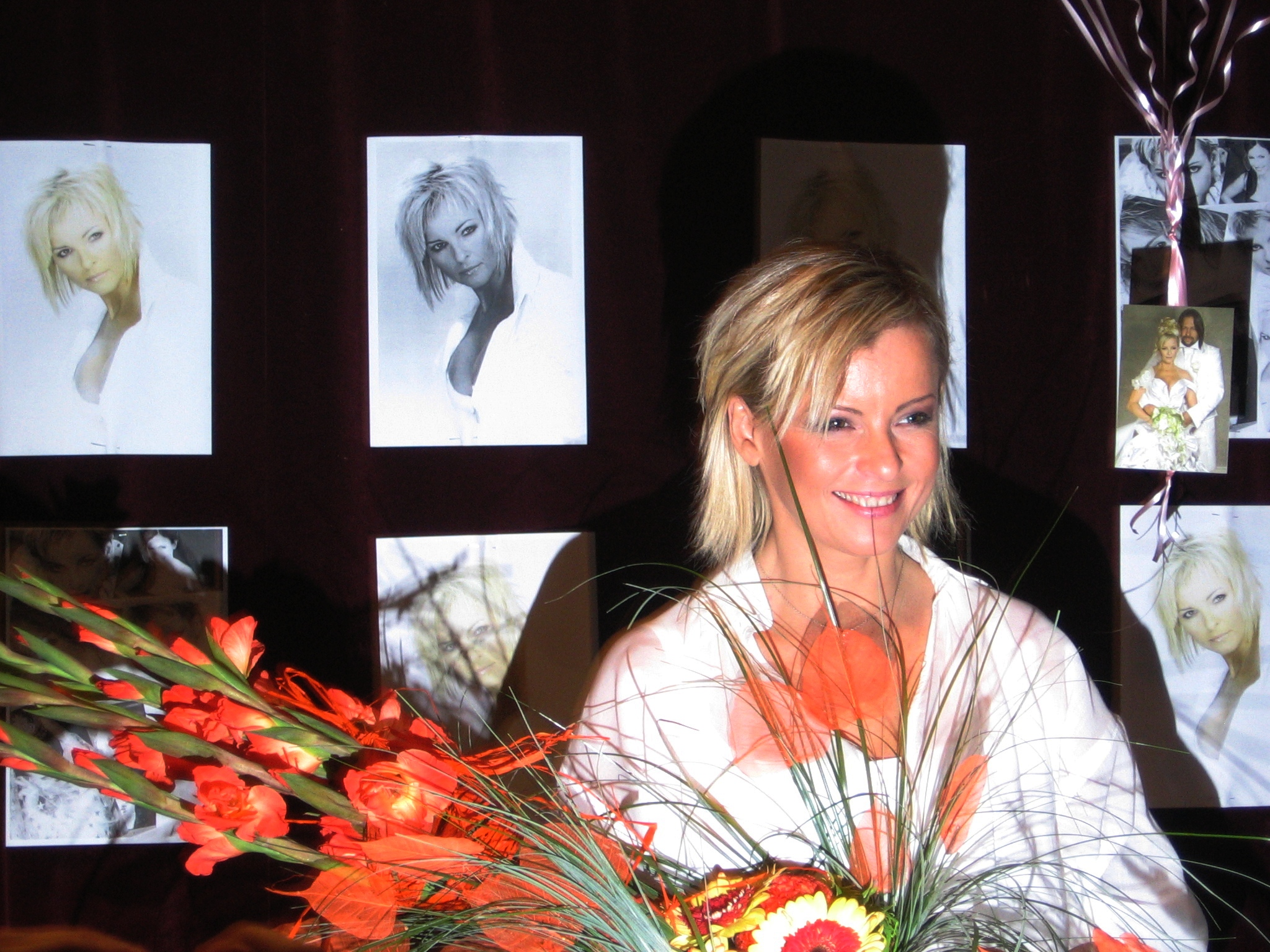 Iveta Bartošová, Czech singer